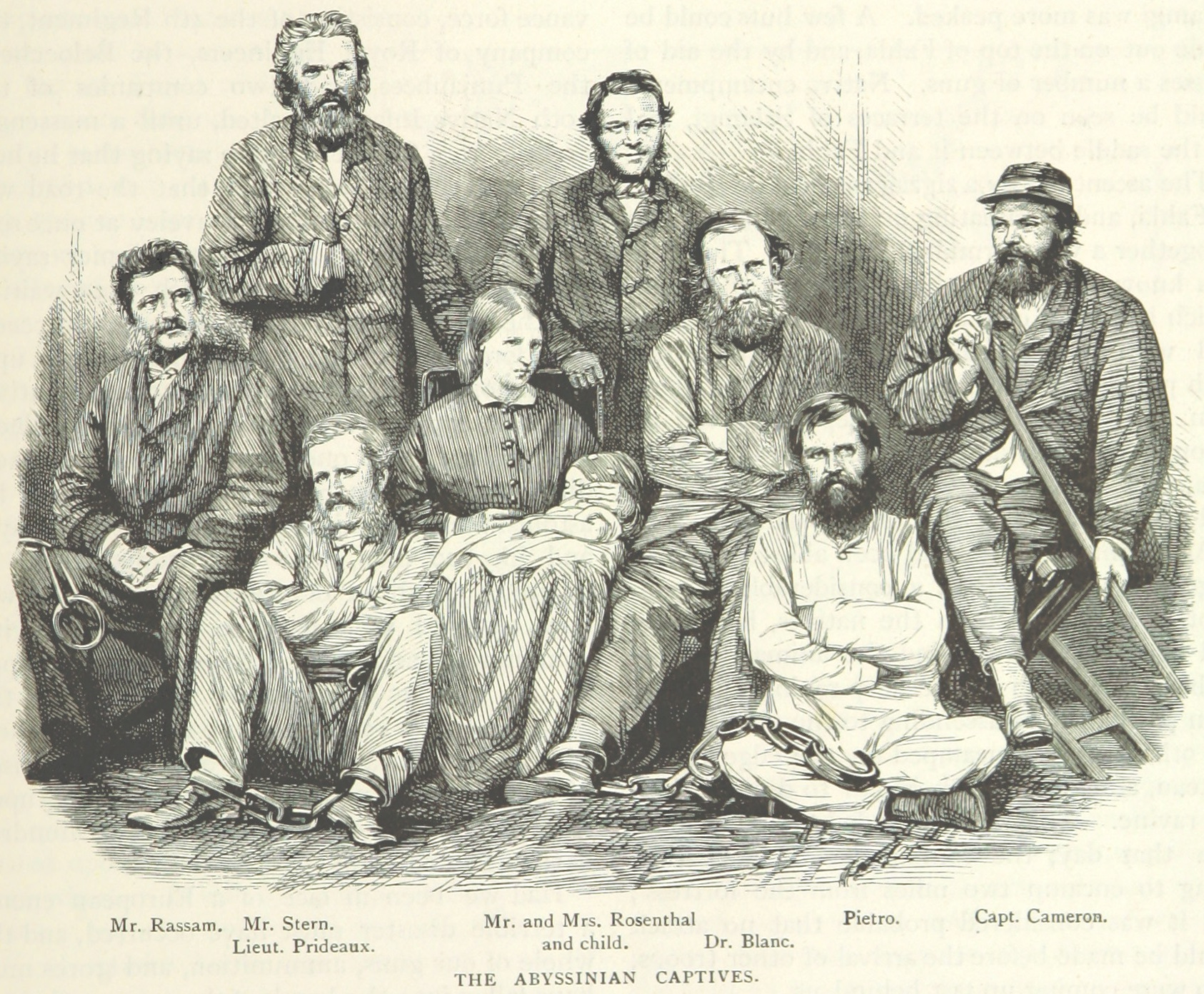 The captives of Abyssinian emperor Tewodros II. Their capture led to the British Expedition to Abyssinia.